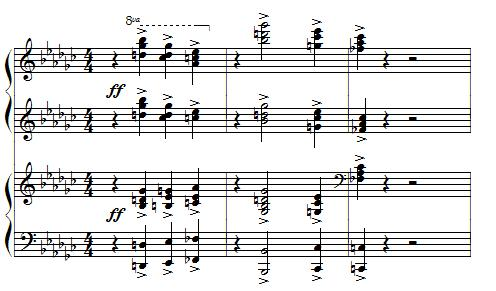 Begining of the 6th Symphony of Nikolai Myaskowsky for piano four hands